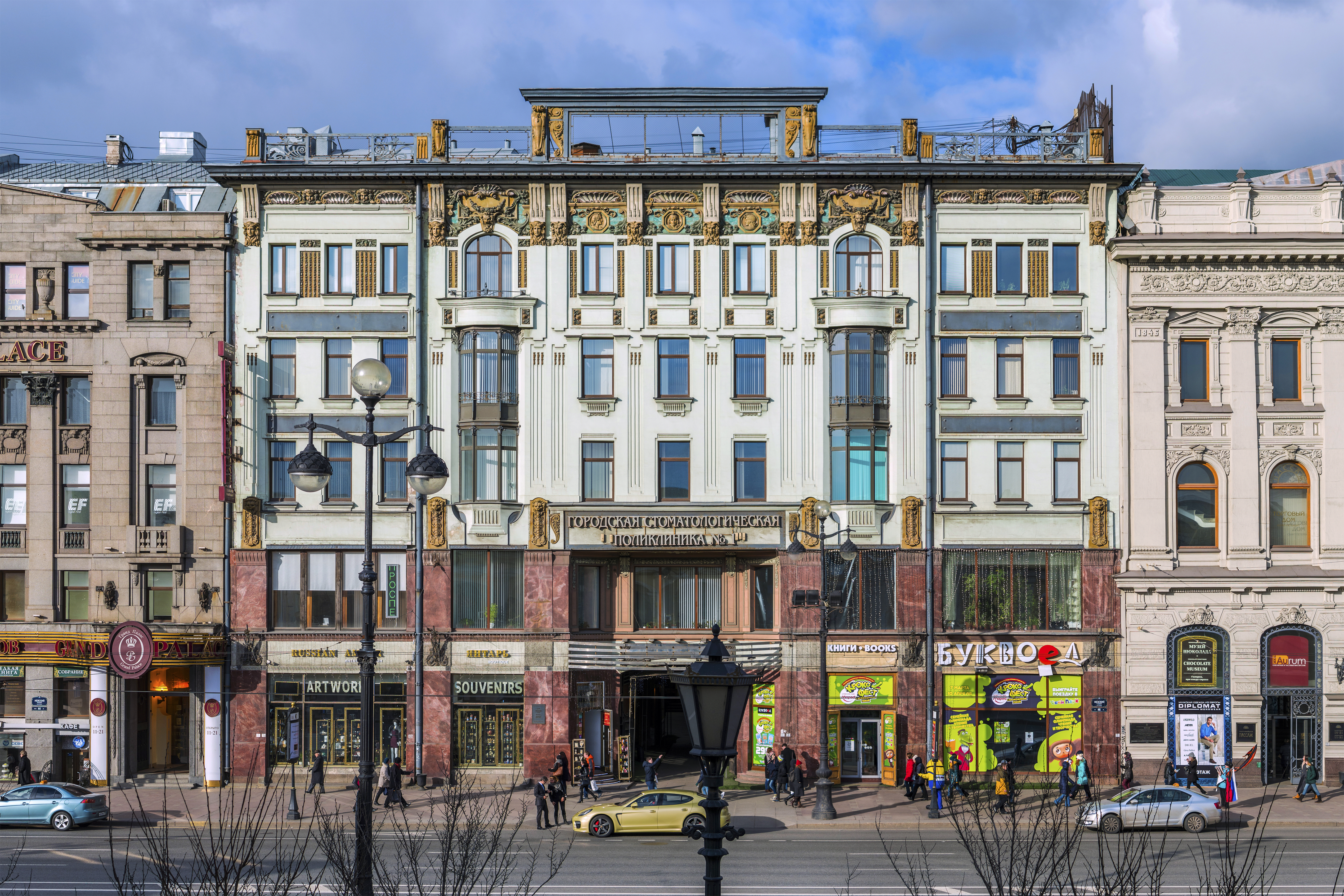 Moscow Merchant Bank (46, Nevsky Avenue) in Saint Petersburg